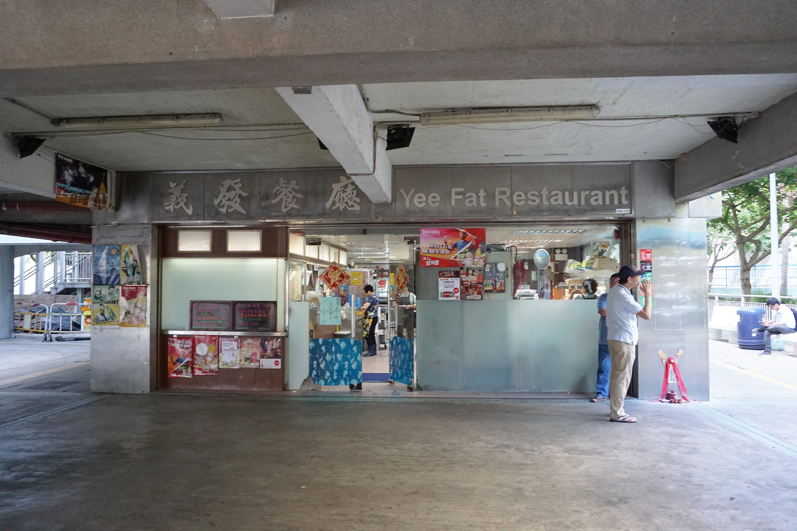 Shun On Estate in Sau Mau Ping, Hong Kong.